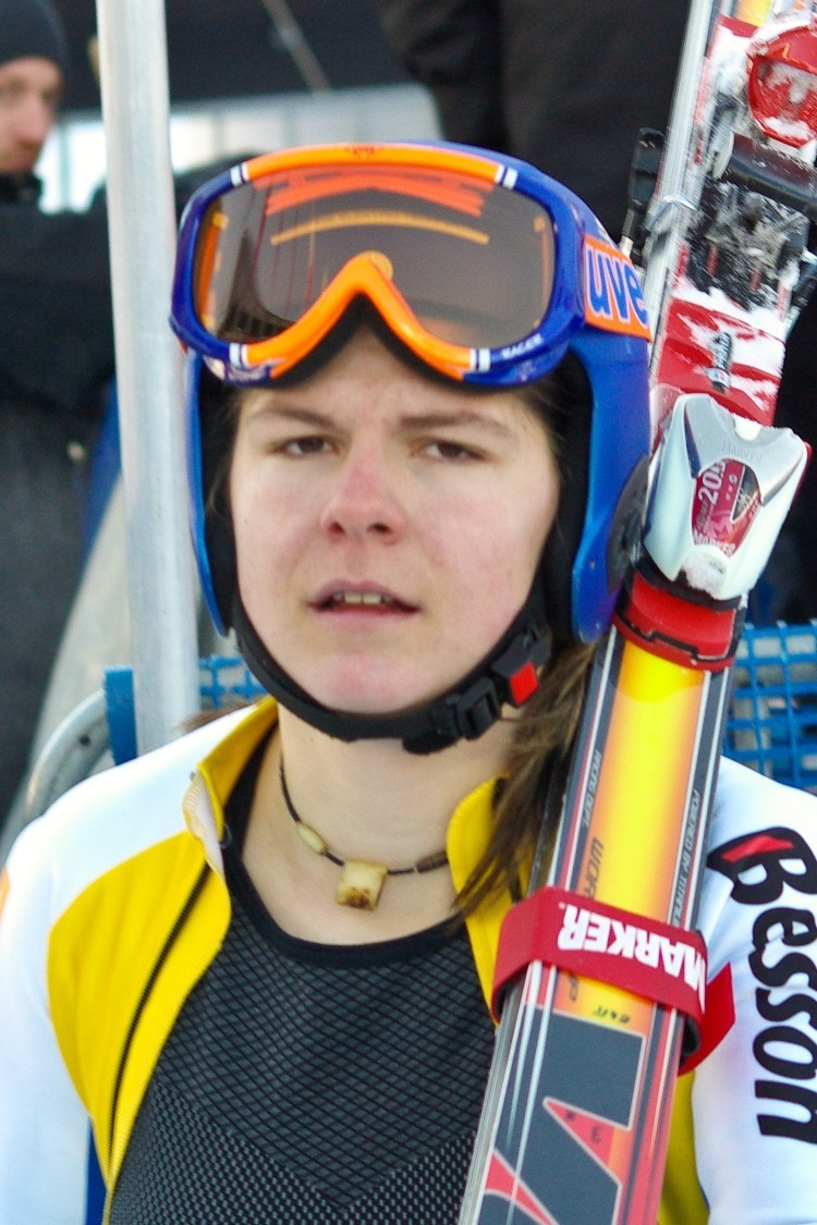 Romanian alpine skier Edit Miklós after the second downhill training in Altenmarkt-Zauchensee (Austria) on 16 January 2009.